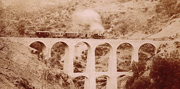 Train in the Sammuco viaduct (Su Samuccu), along the Isili-Sorgono railway in Sardinia, Italy, in the last years of the XIX century